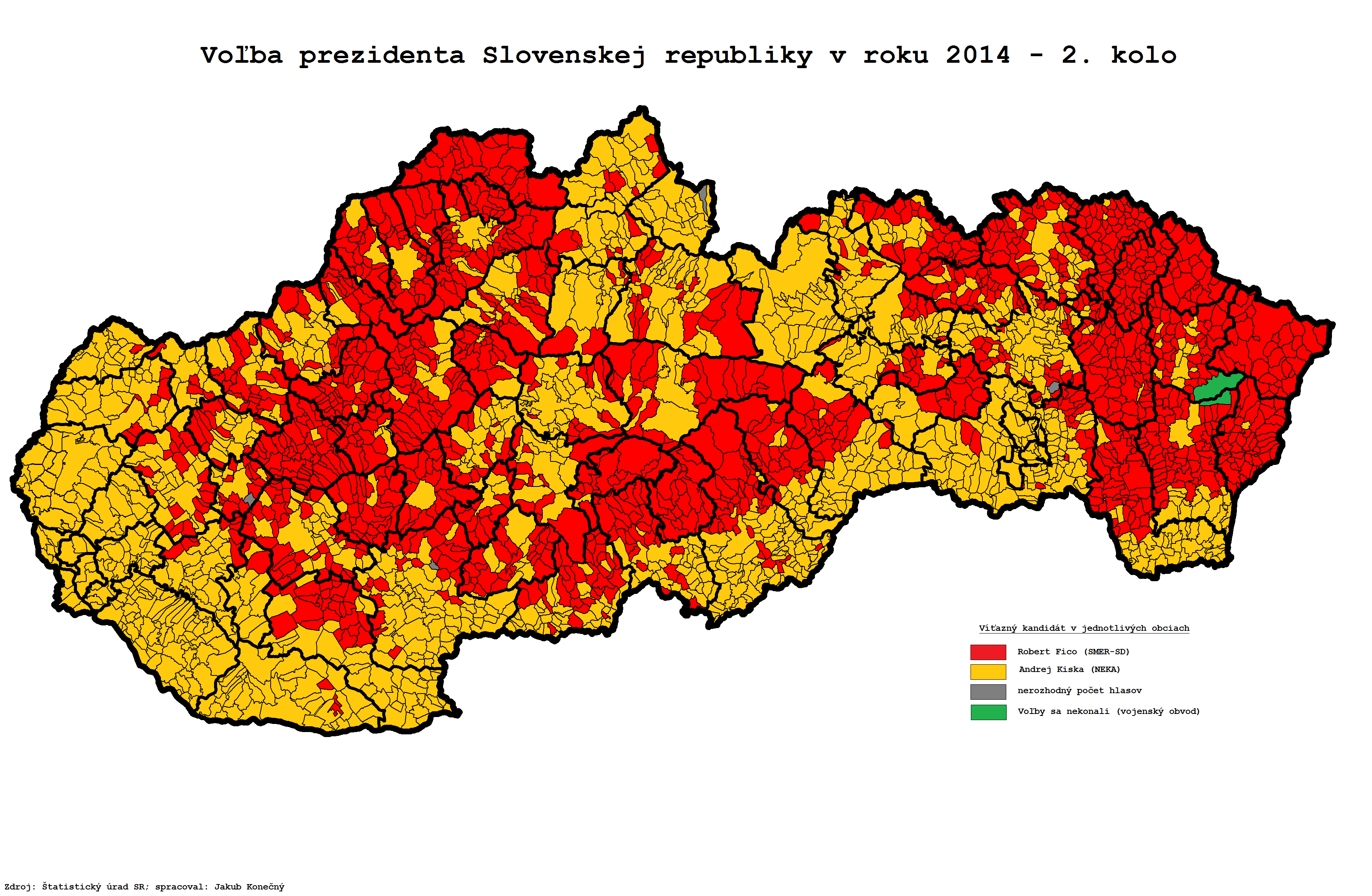 The municipality level results of second round of 2014 Slovak presidential election. Yellow: Andrej Kiska; red: Robert Fico; gray: tie; green: no election (military district)